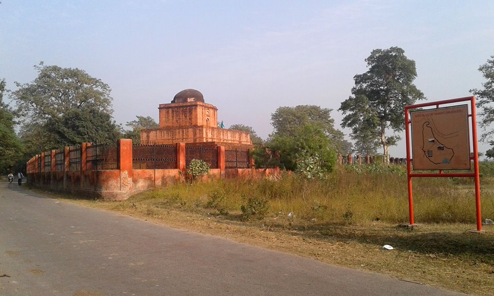 Lord buddha old temple